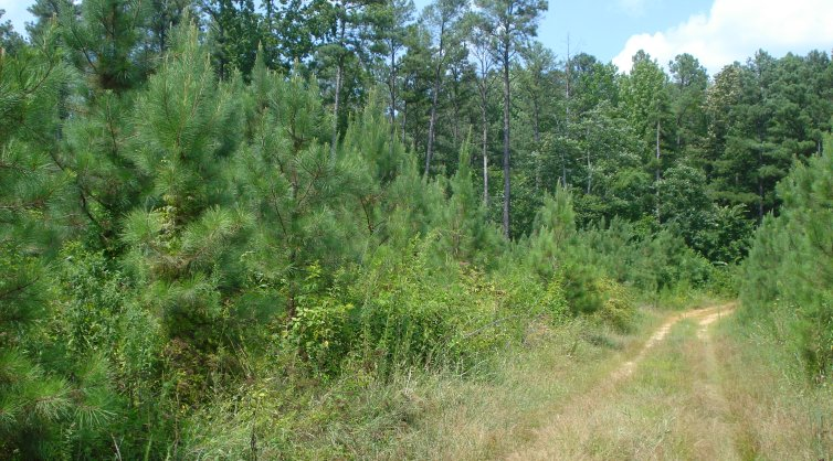 Soft edge along Virginia pine forest is good for wildlife